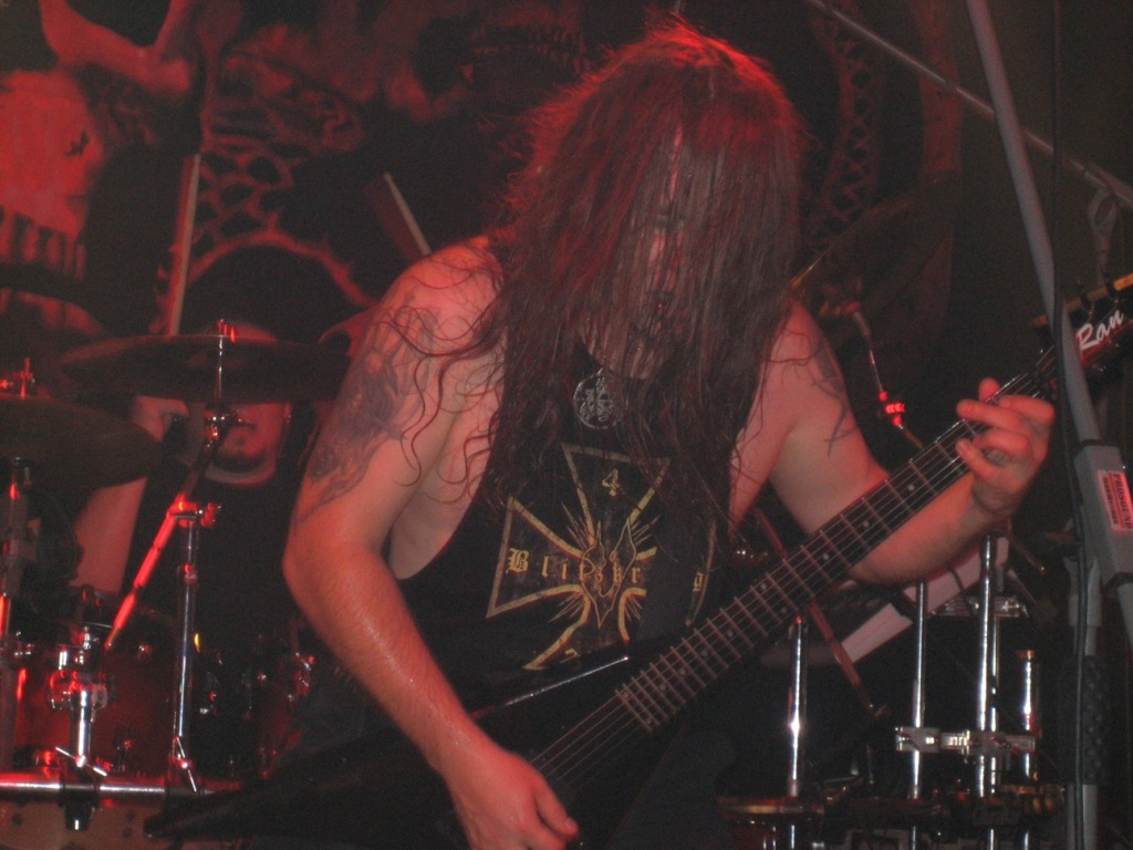 on picture Vader polish death metal band